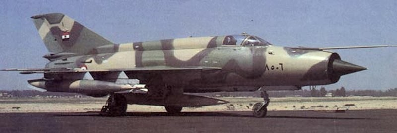 Picture of an Egyptian MiG-21RF (b/n 8560)